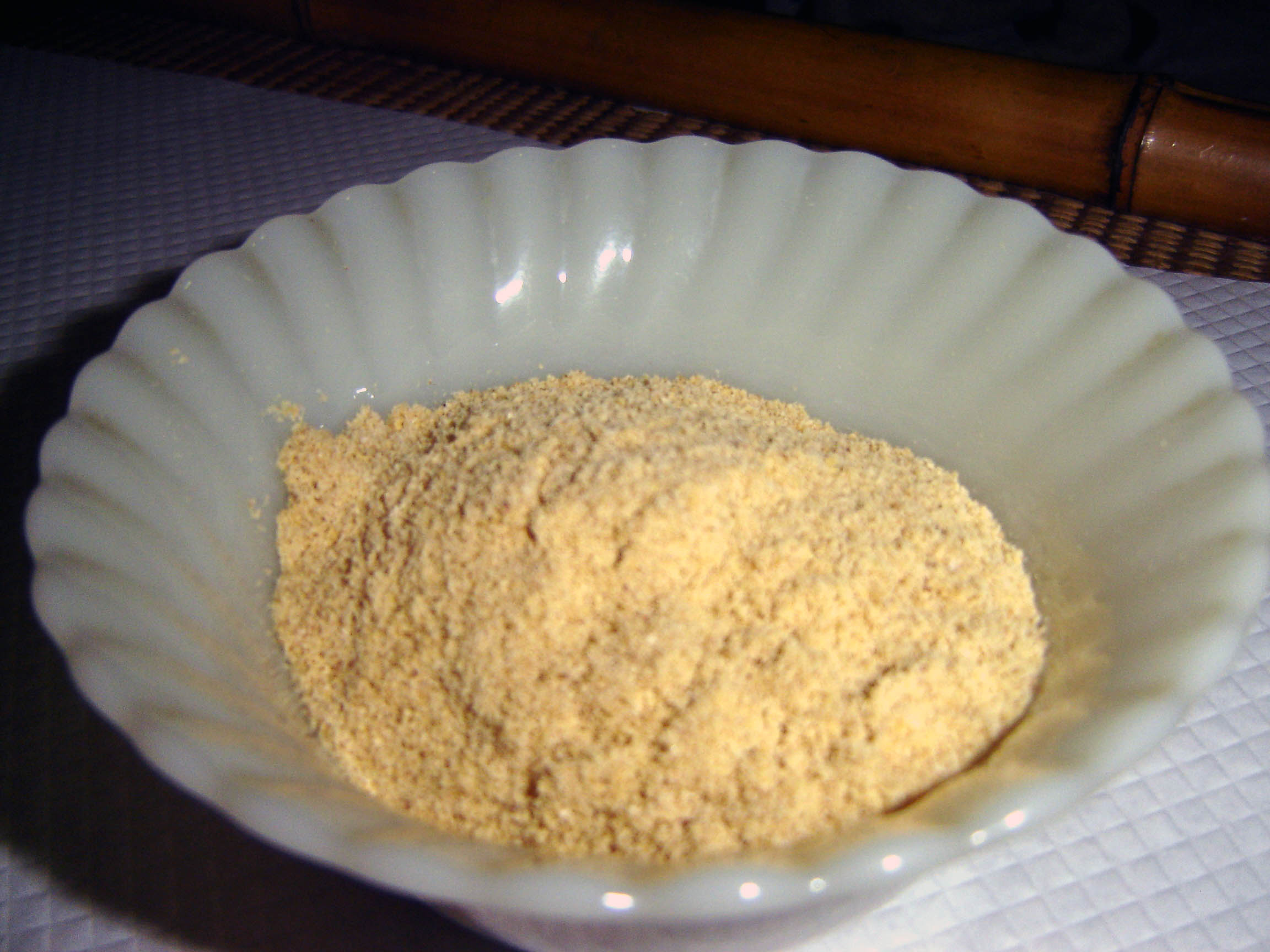 picture of farofa, taken by user Carioca